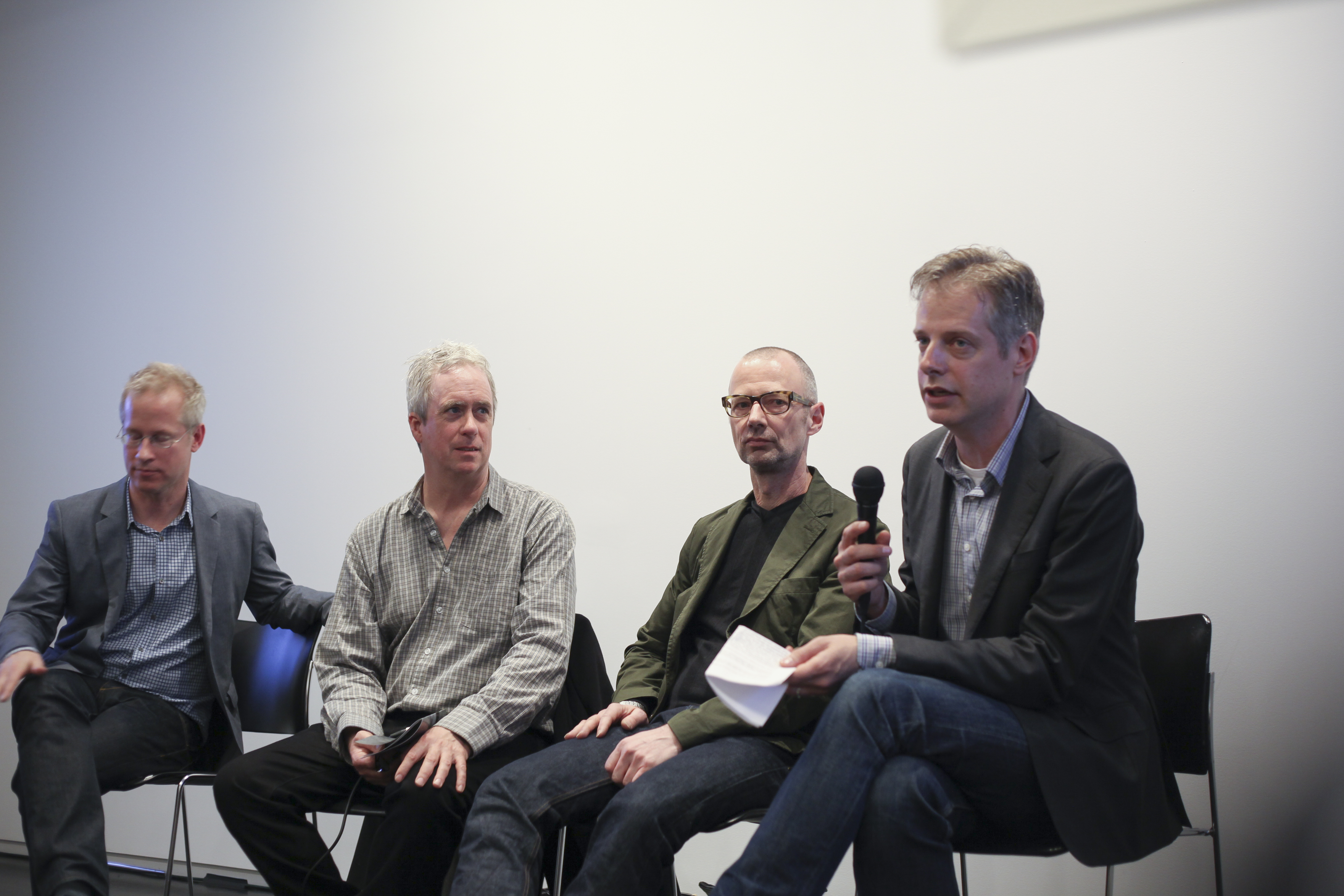 Branden W. Joseph, Tony Oursler, John Miller, Mark Wasiuta (Probe: Tony Oursler: UFOs and Effigies)